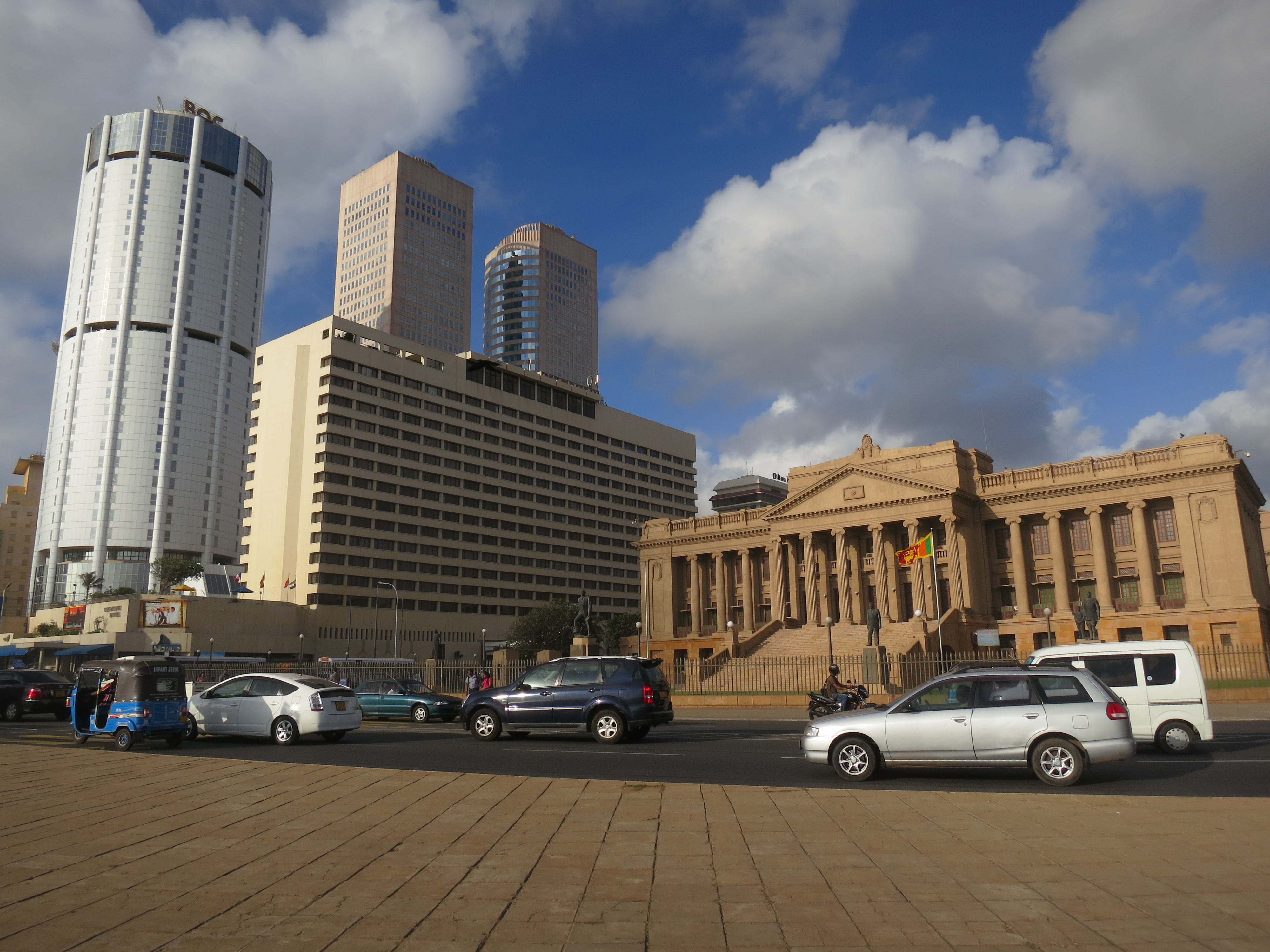 No description